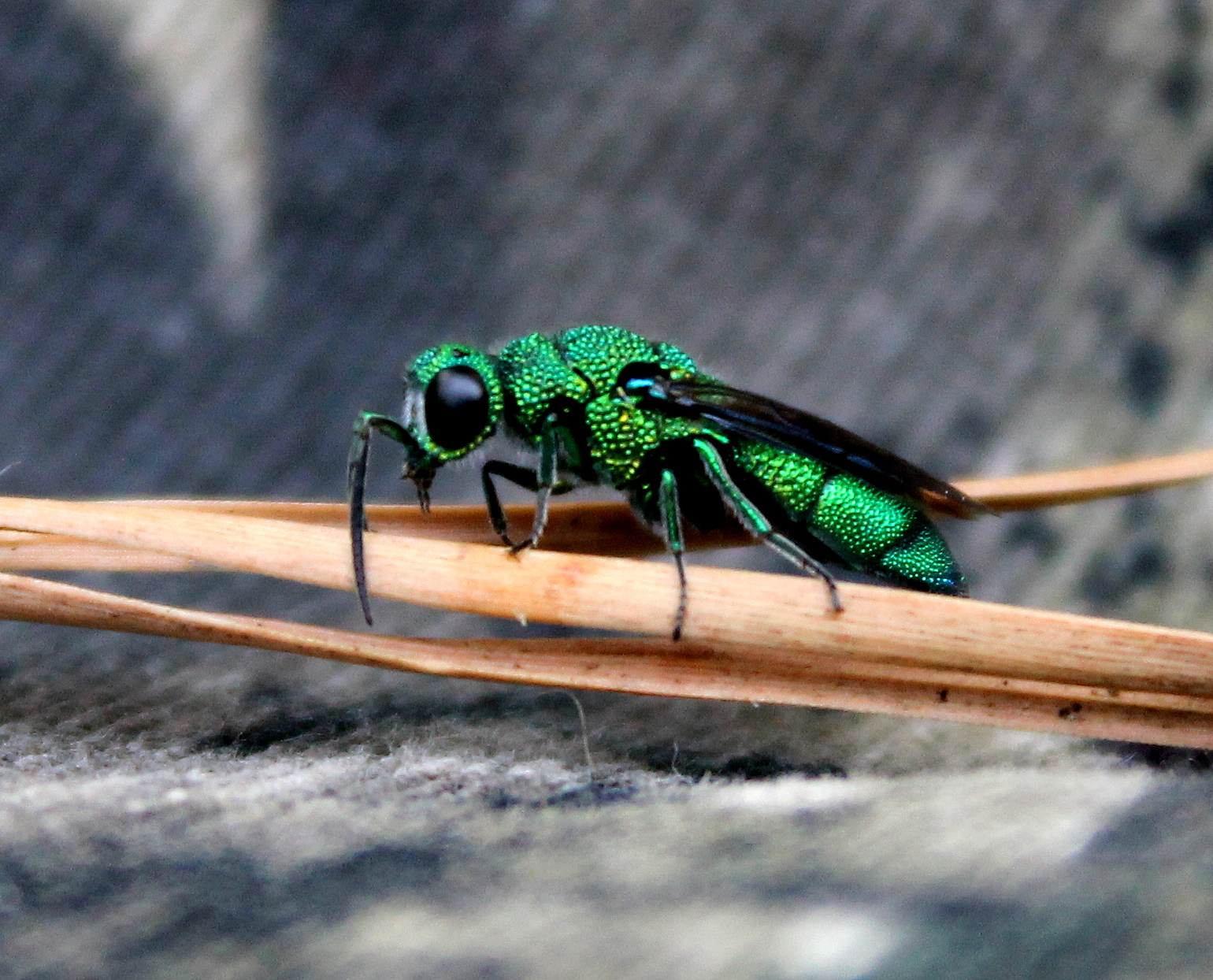 Cuckoo Wasp in North Carolina Piedmont